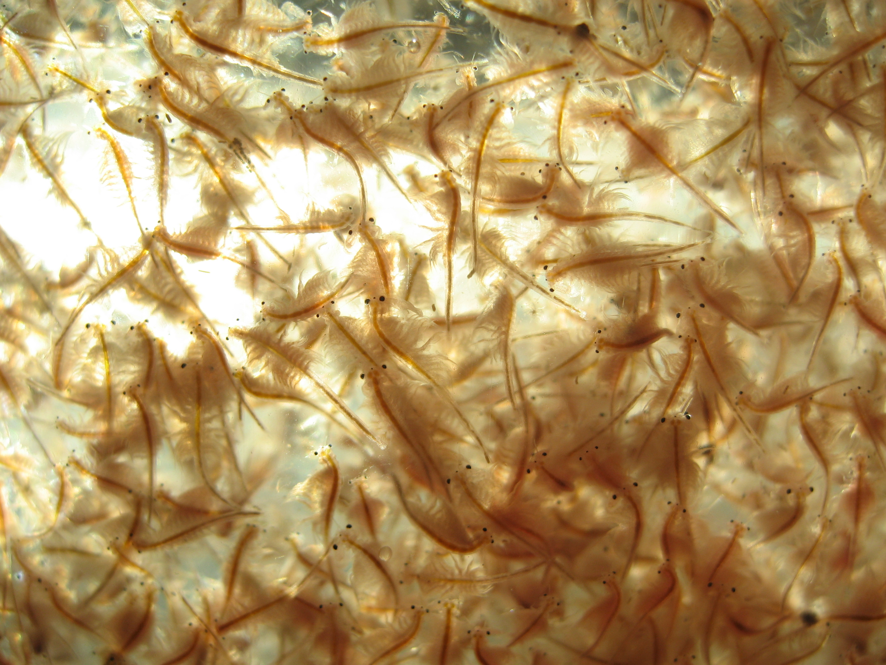 Original description: live brine shrimp which will be fed to my tropical fish